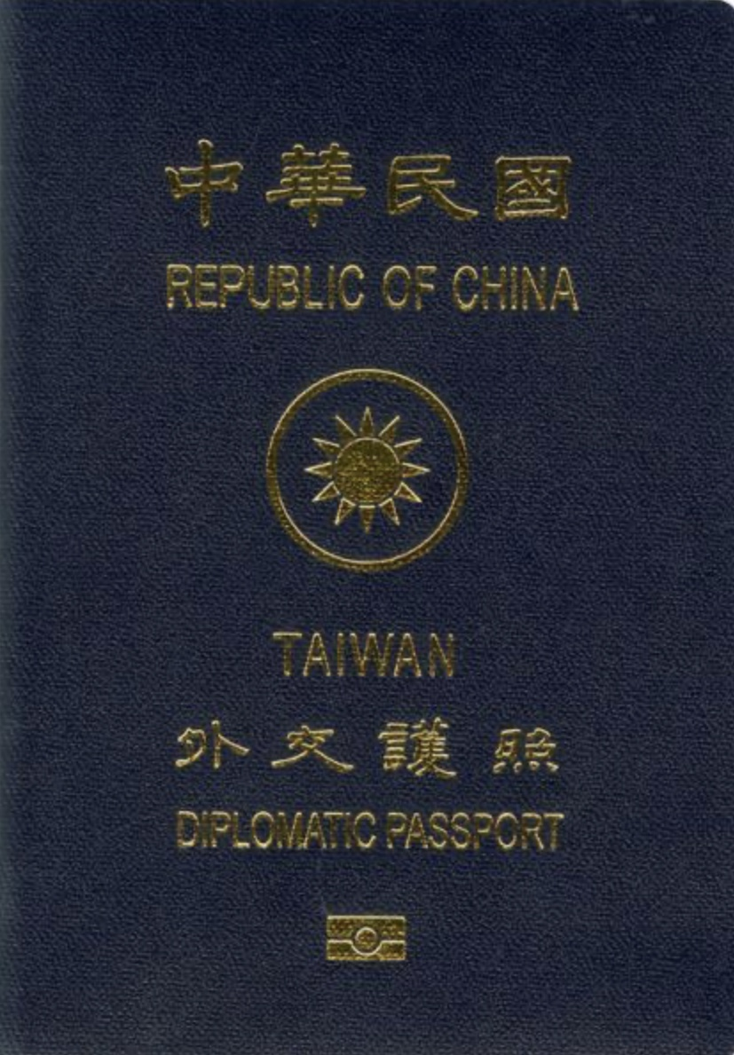 ROC diplomatic passport front cover